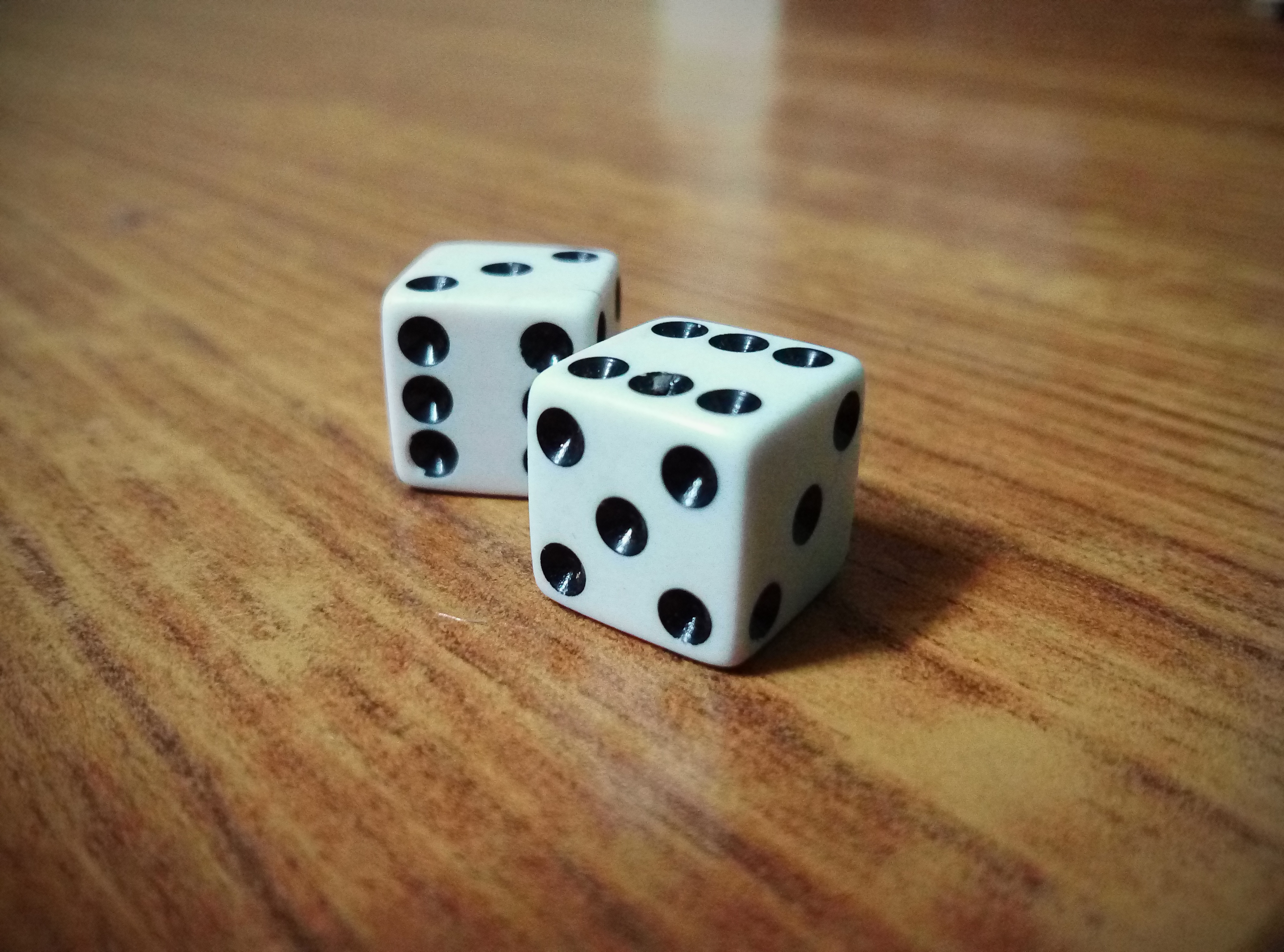 Dieses placed on the table